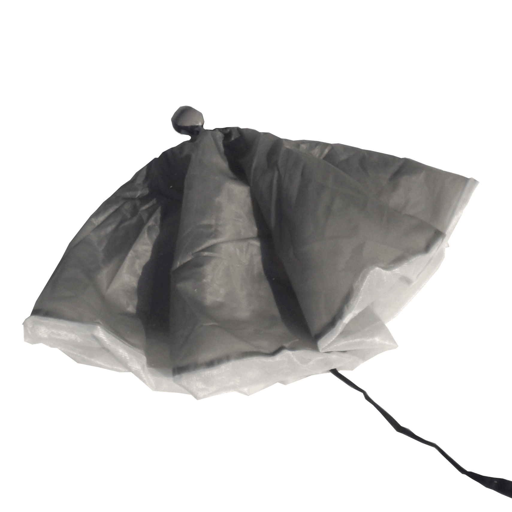 Throw-out pilotchute